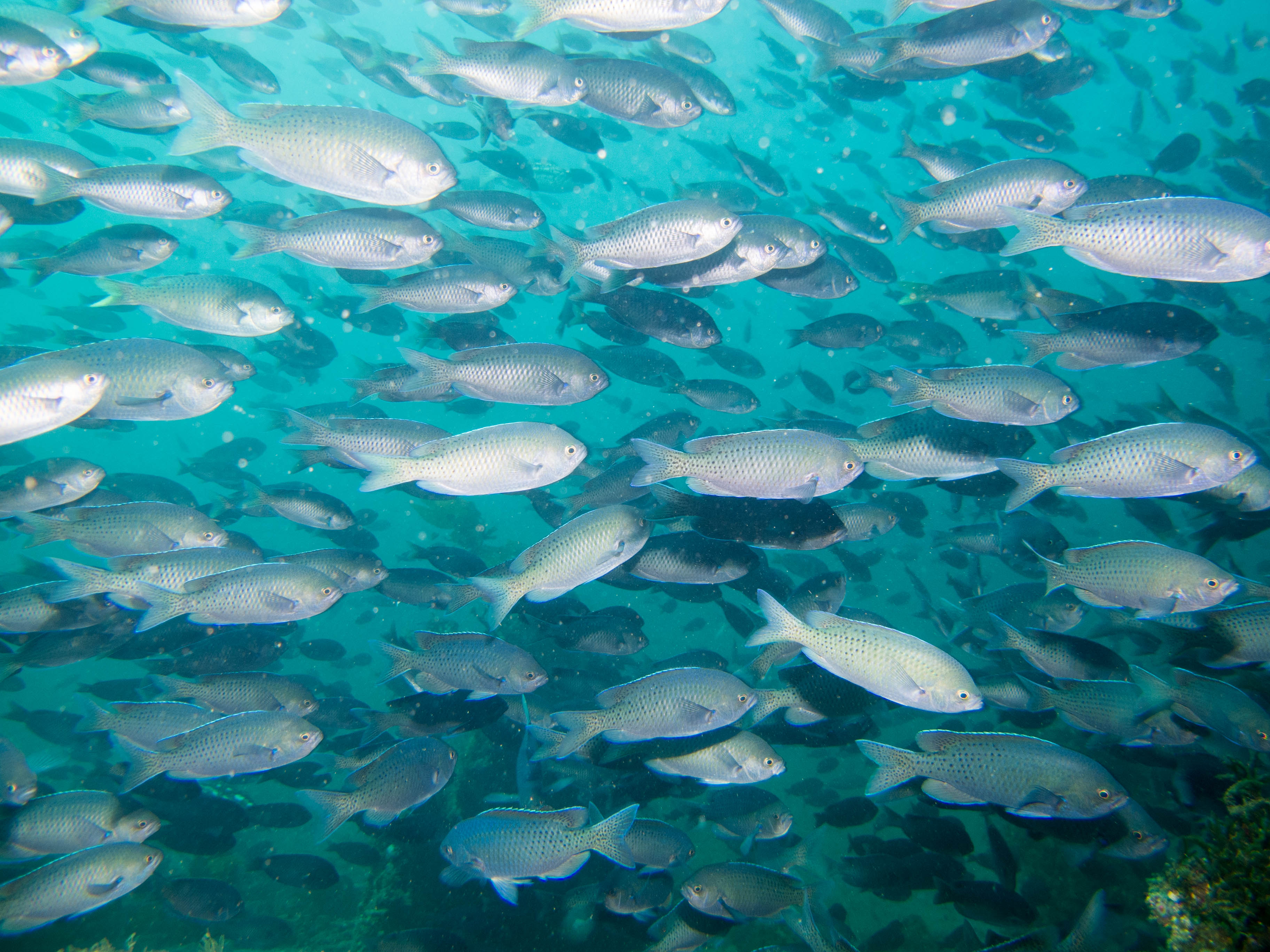 Annual diving trip with the Northern California Rainbow Divers aboard the Vision. We traveled to Santa Cruz and Anacapa Islands